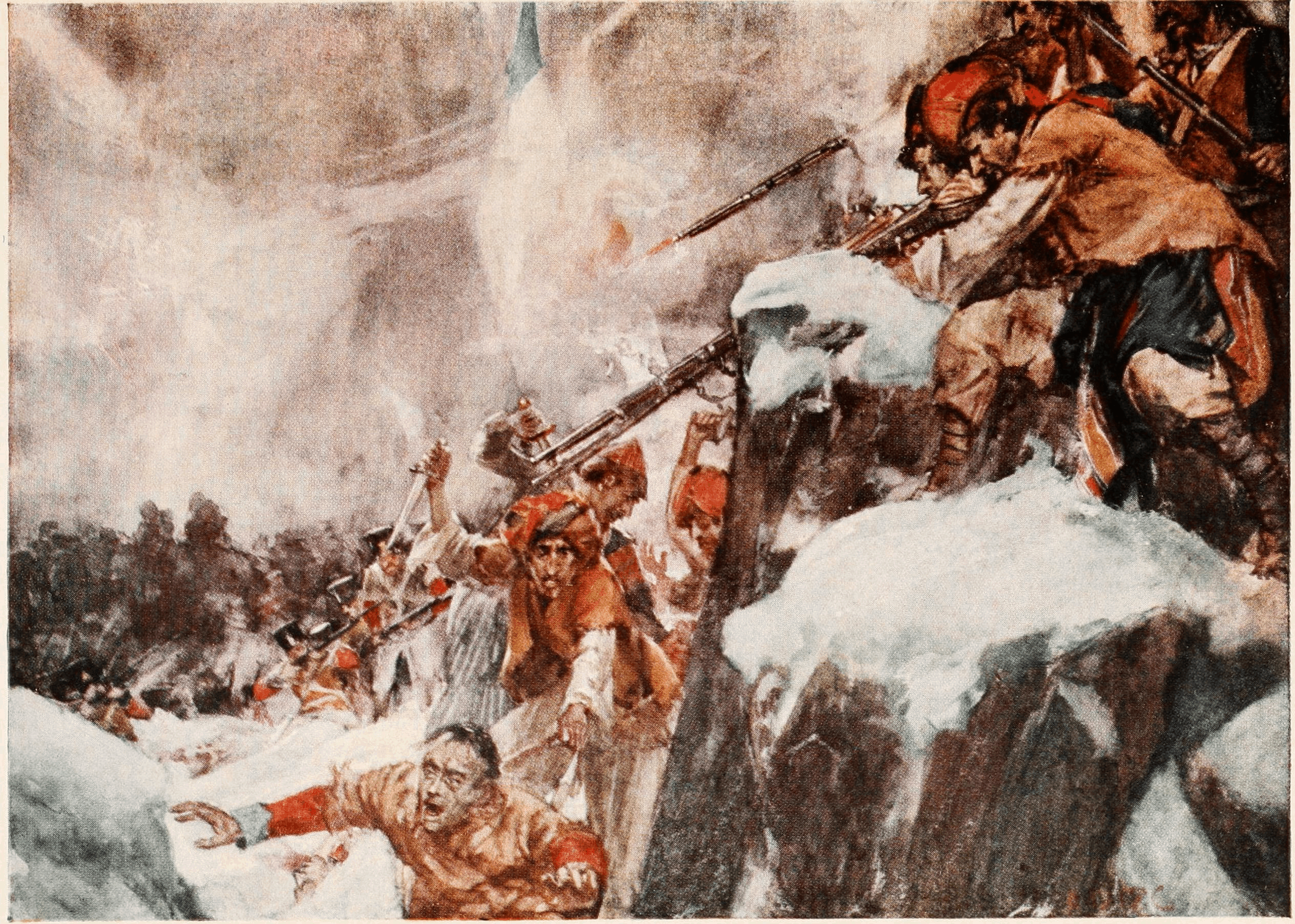 Romance of Empire India